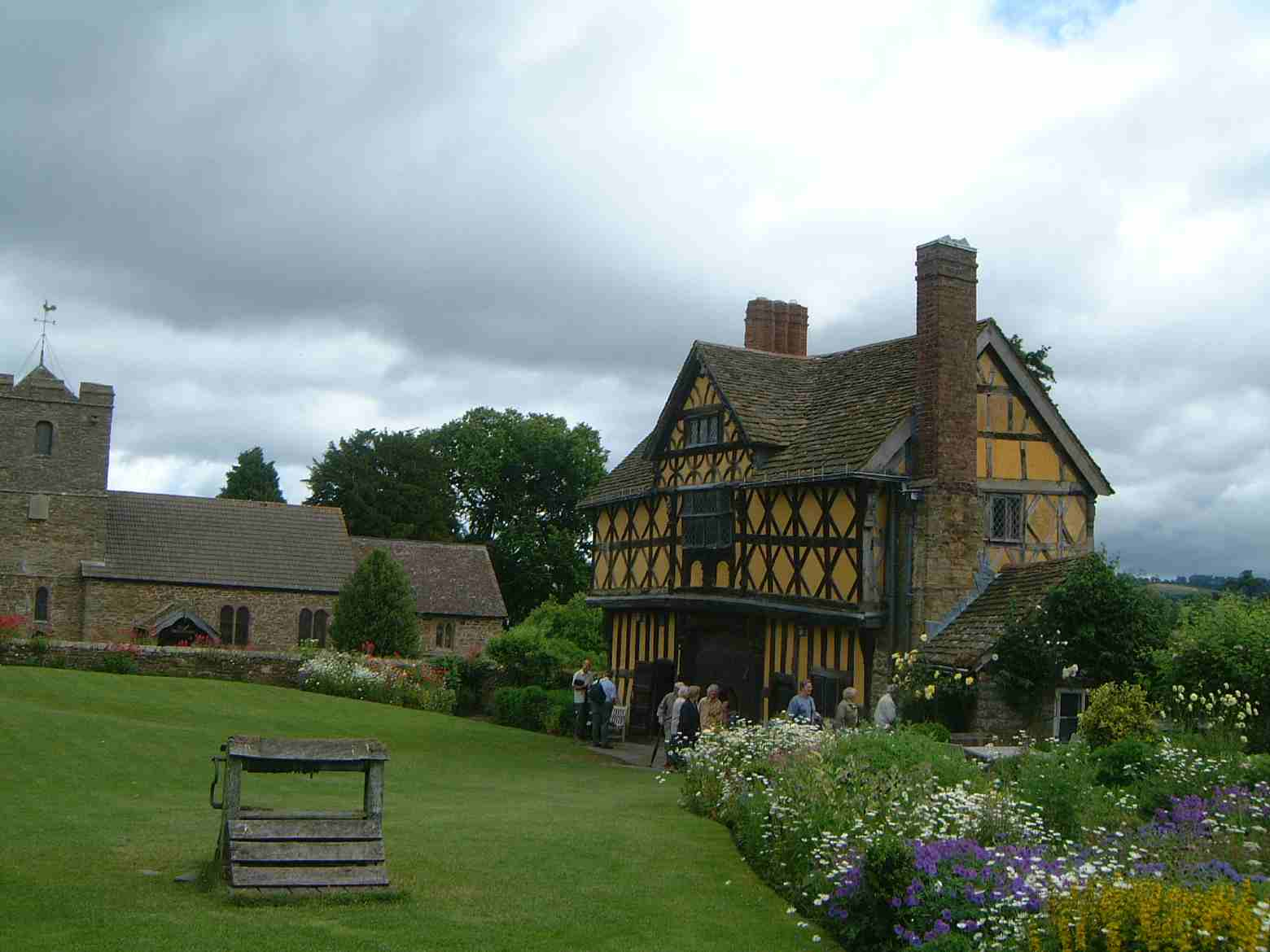 Stockesay Castle gatehouse